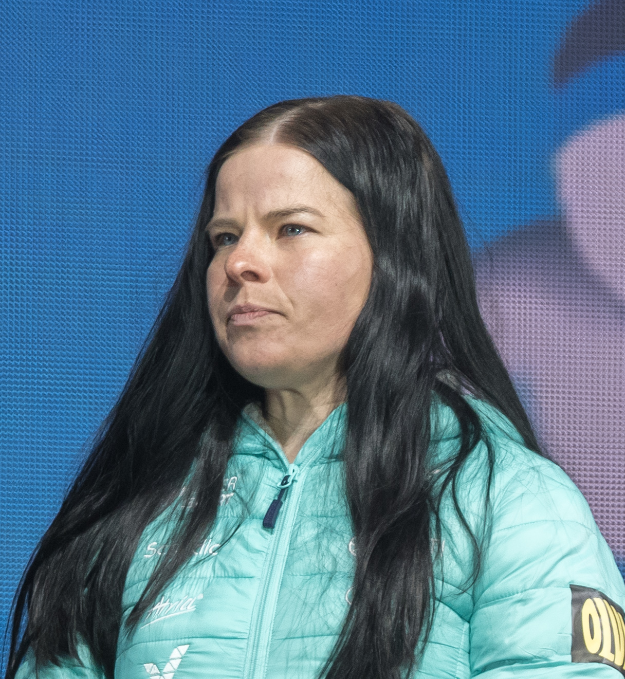 FIS Nordic Wolrd Ski Championships Seefeld 2019 - Medal Ceremony at the Medal Plaza. Picture shows Krista Pärmäkoski (FIN).